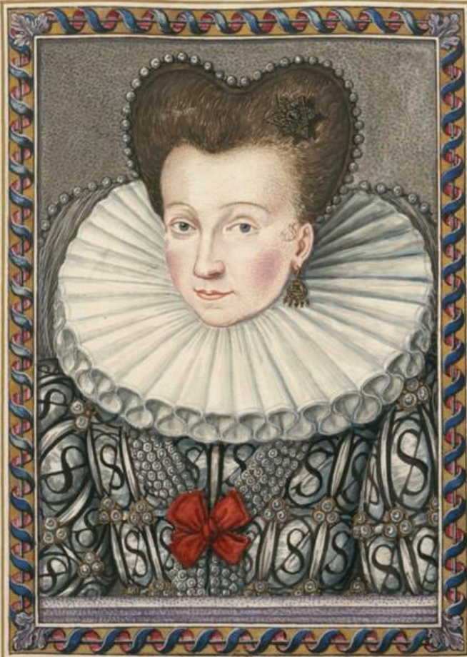 Francoise d'Orléans, Princess of Condé by Gaignières